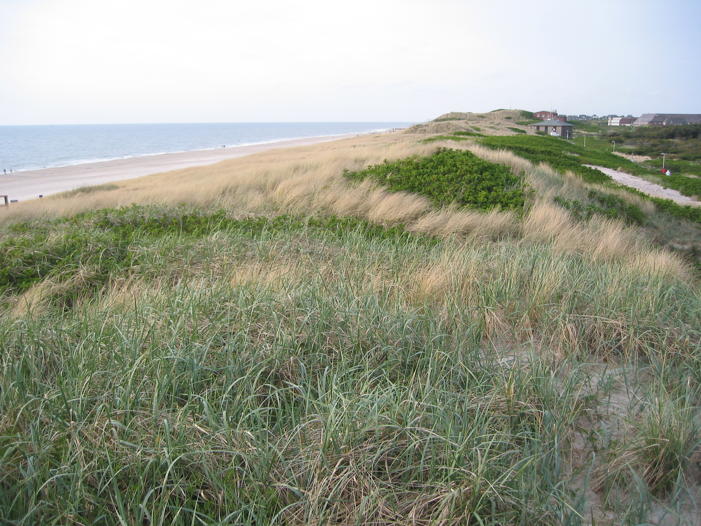 Beach grass on dune on Sylt, Germany.